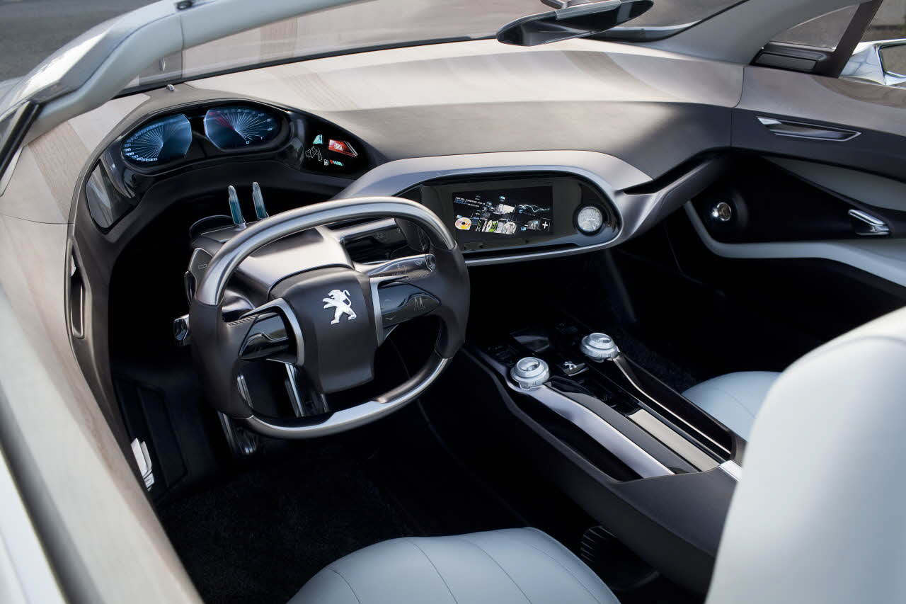 Peugeot SR1 - Inside